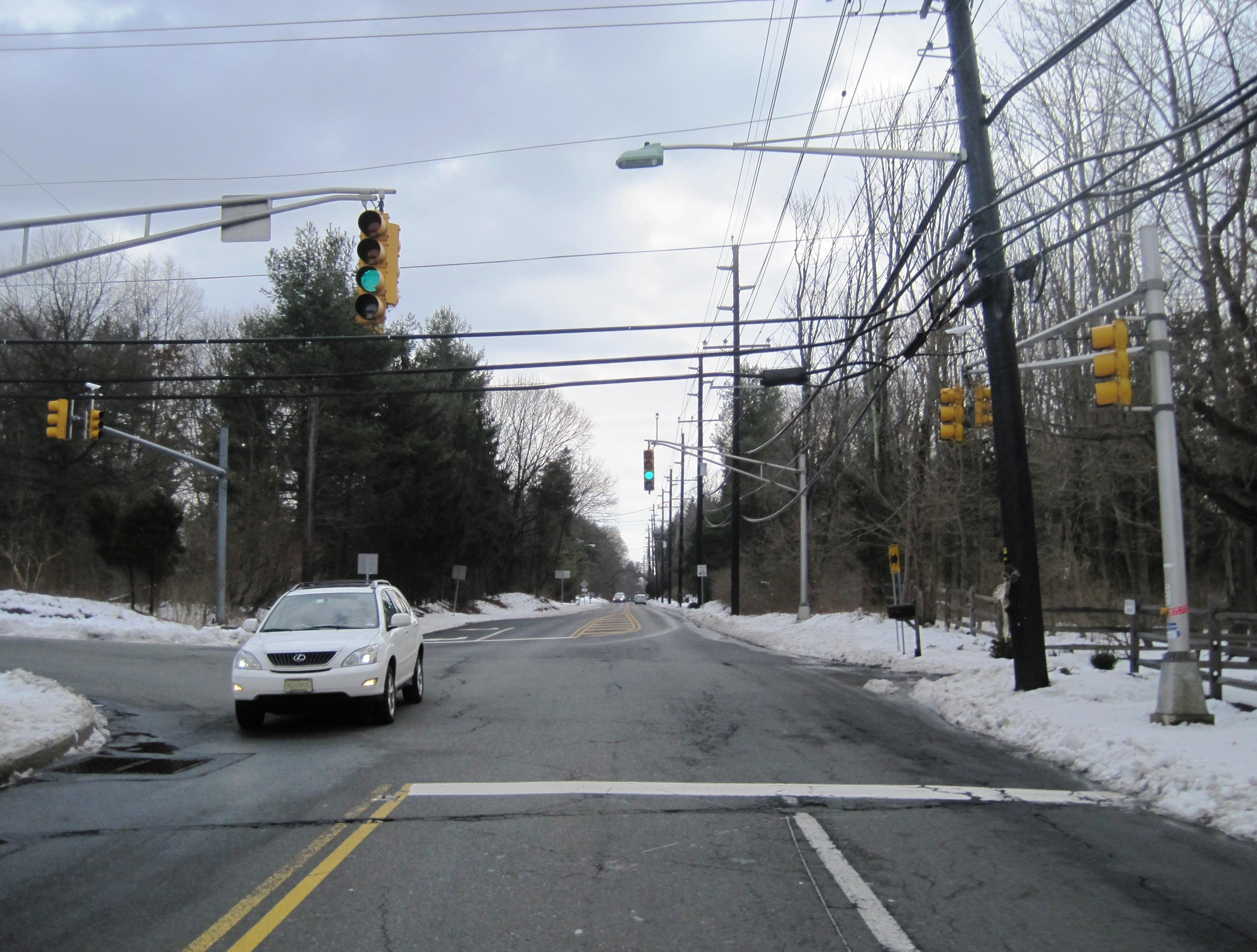 Photo of the intersection of County Route 569 (Carter Road) and CR 604 (Rosedale) in an unincorporated section of Lawrence Township, Mercer County, New Jersey called Rosedale.